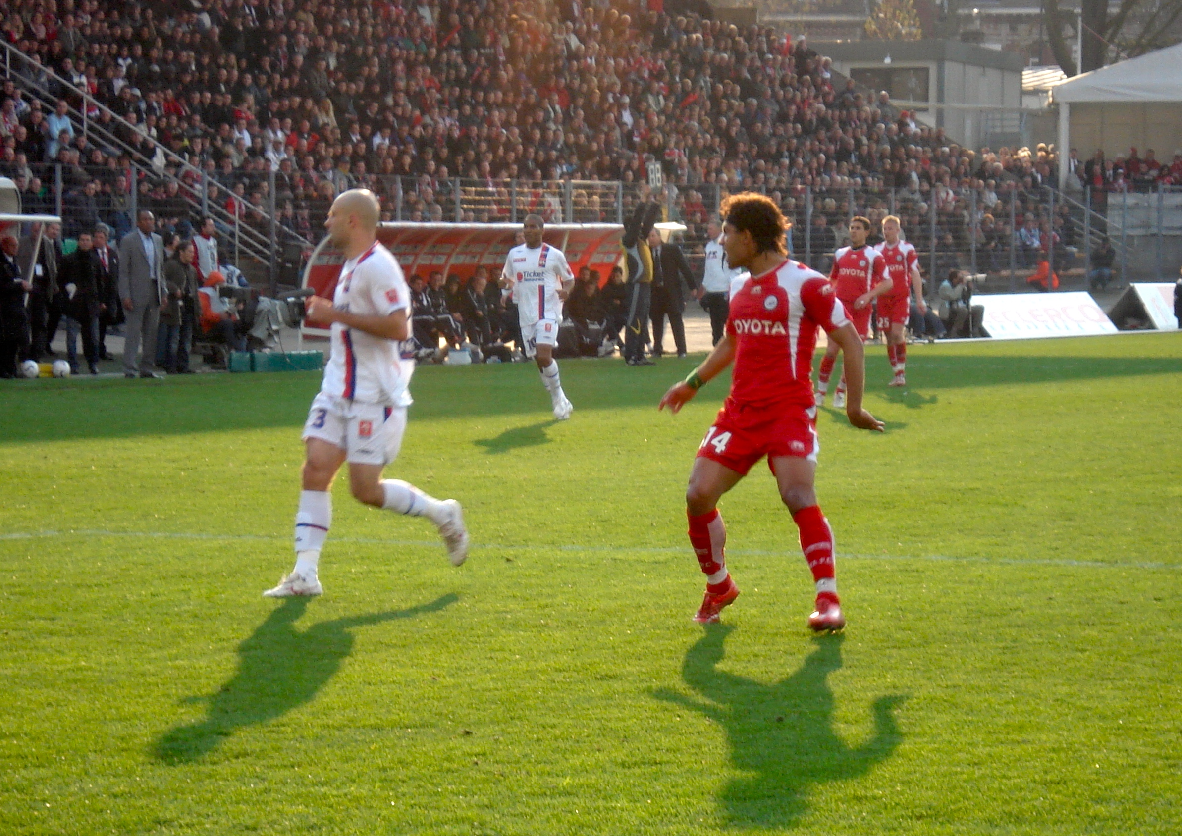 Valenciennes - Lyon 2007